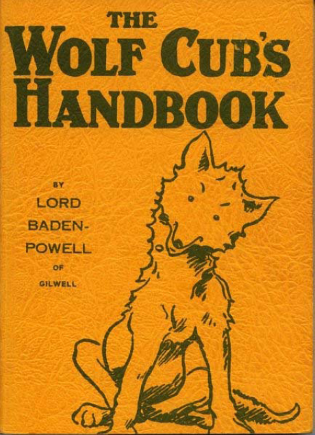 Cover of The Wolf Cub's Handbook by Robert Baden-Powell, first published in 1916